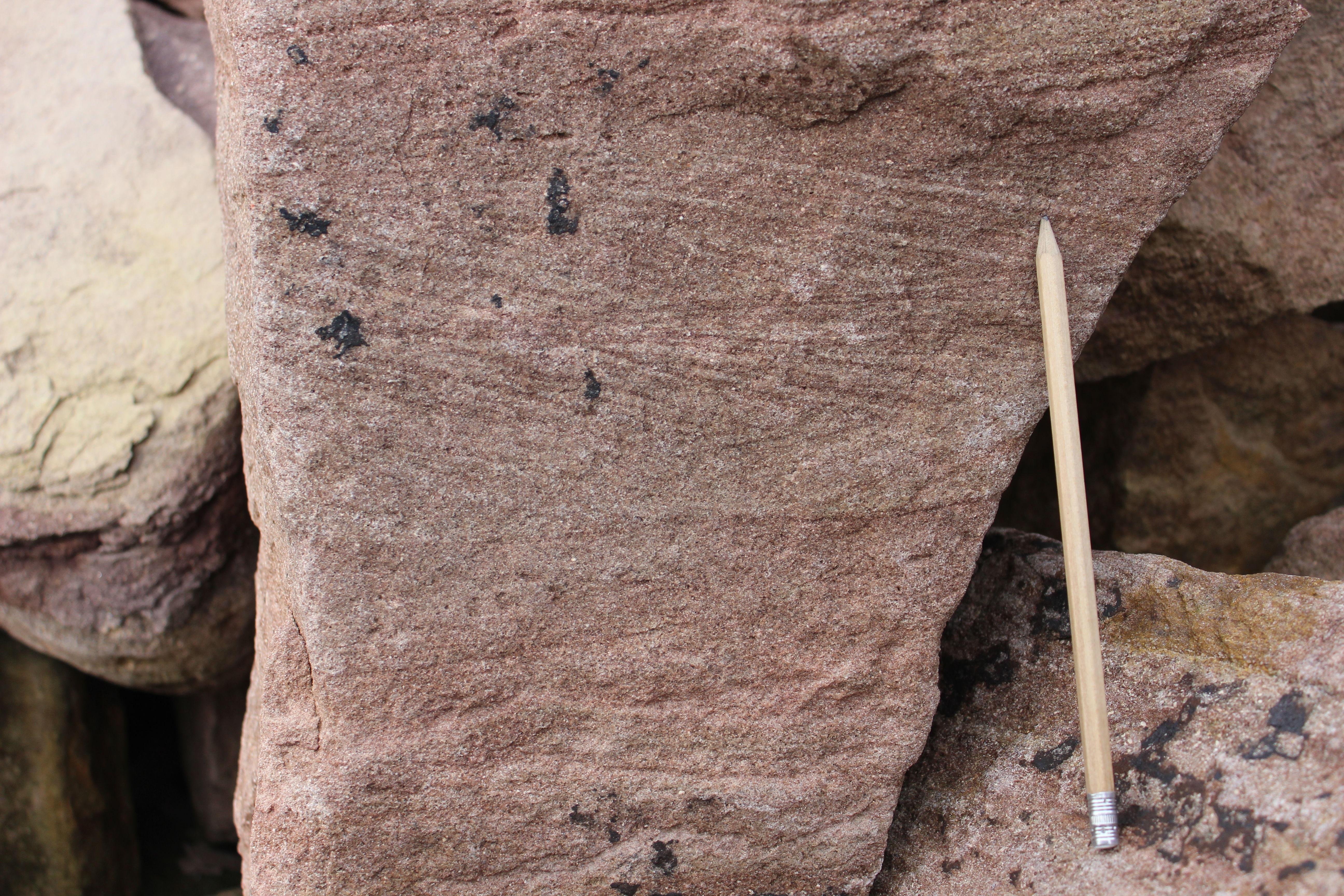 Cambrian sandstone deposited terrestrially